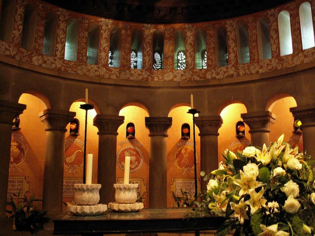 Inside the chancel of St Mary's parish church, Wreay, Cumbria, showing the top of the altar and part of apse